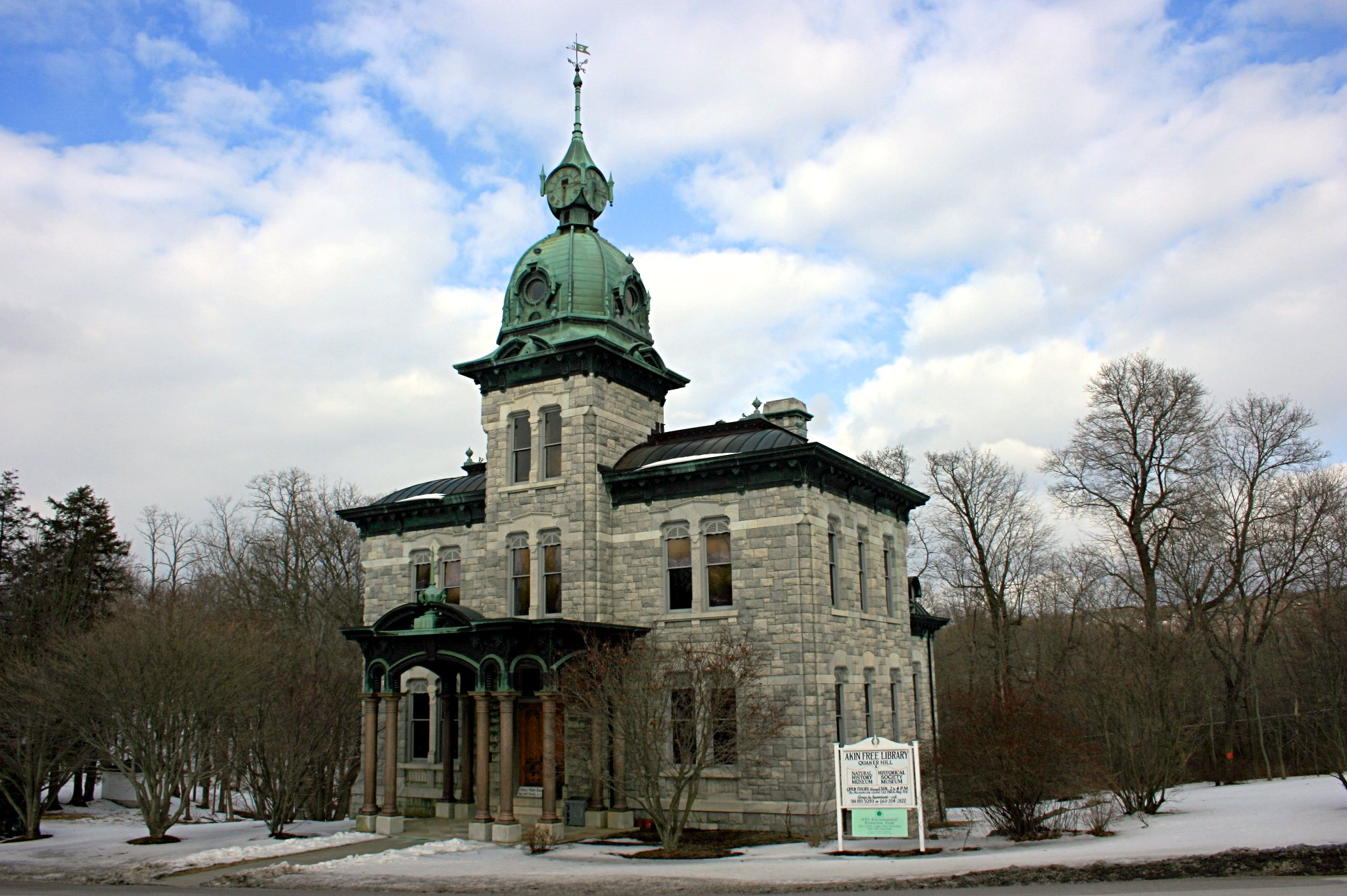 Photograph of the Akin Free Library in in the hamlet of Quaker Hill, town of Pawling, Dutchess County, USA by Rolf Müller